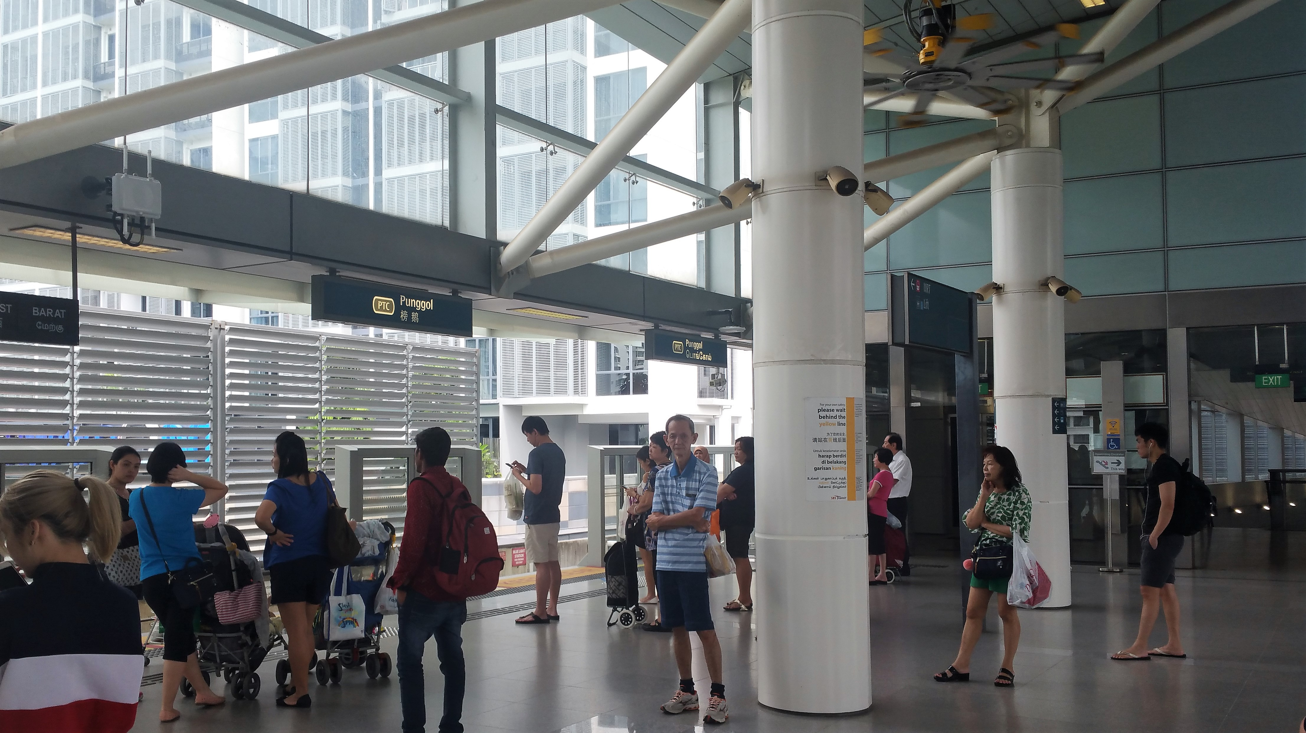 LRT Platform of Punggol